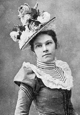 A young white woman wearing hat covered in large flowers, and a dress with a stripped high collar and a ruffled yoke.